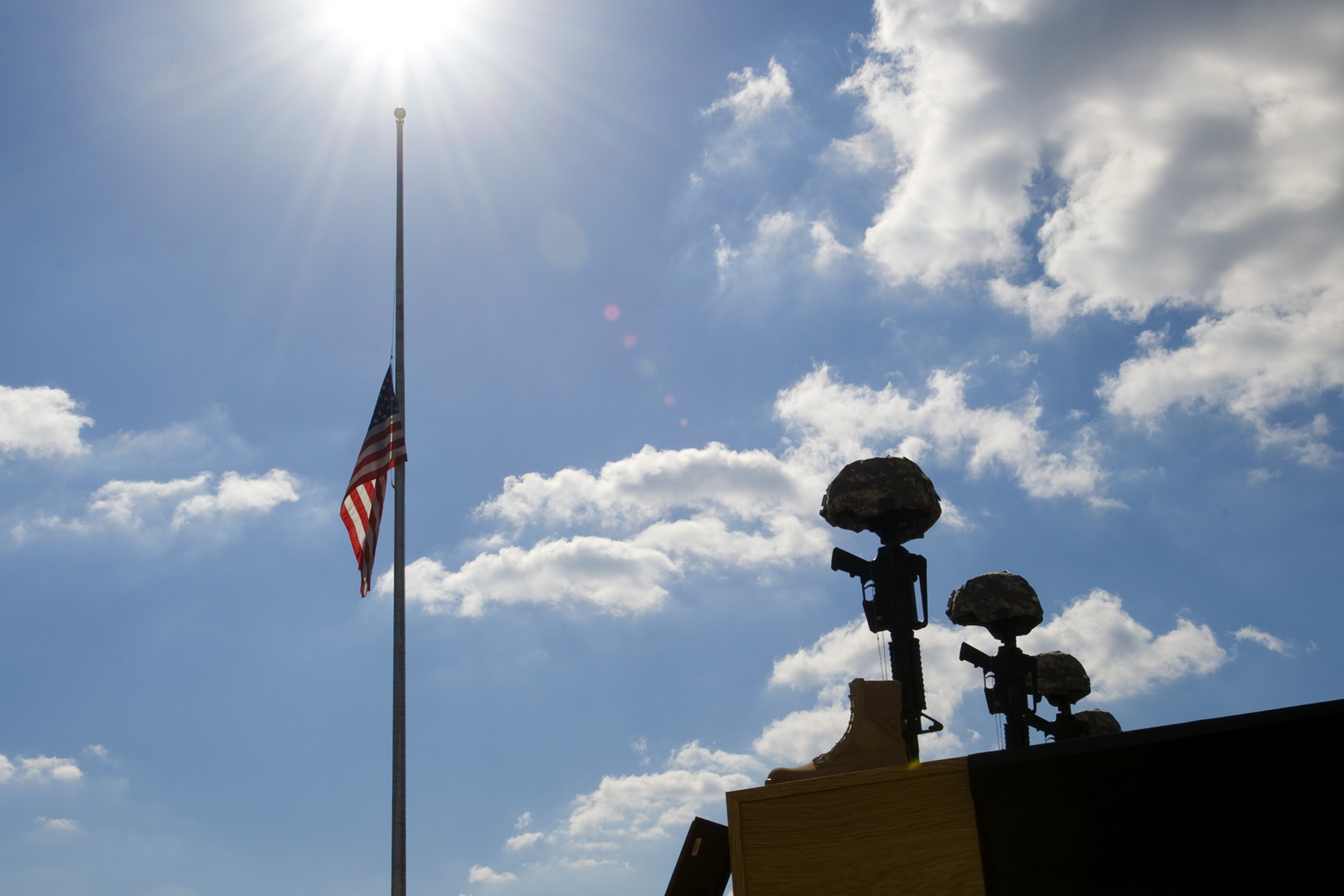 The American flag on Fort Hood, Texas, rests at half-staff on Nov. 10, 2009, during a memorial ceremony honoring the victims of the Nov. 5, shooting rampage that left 13 dead and 38 wounded. See more at